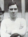 Tom Lyons